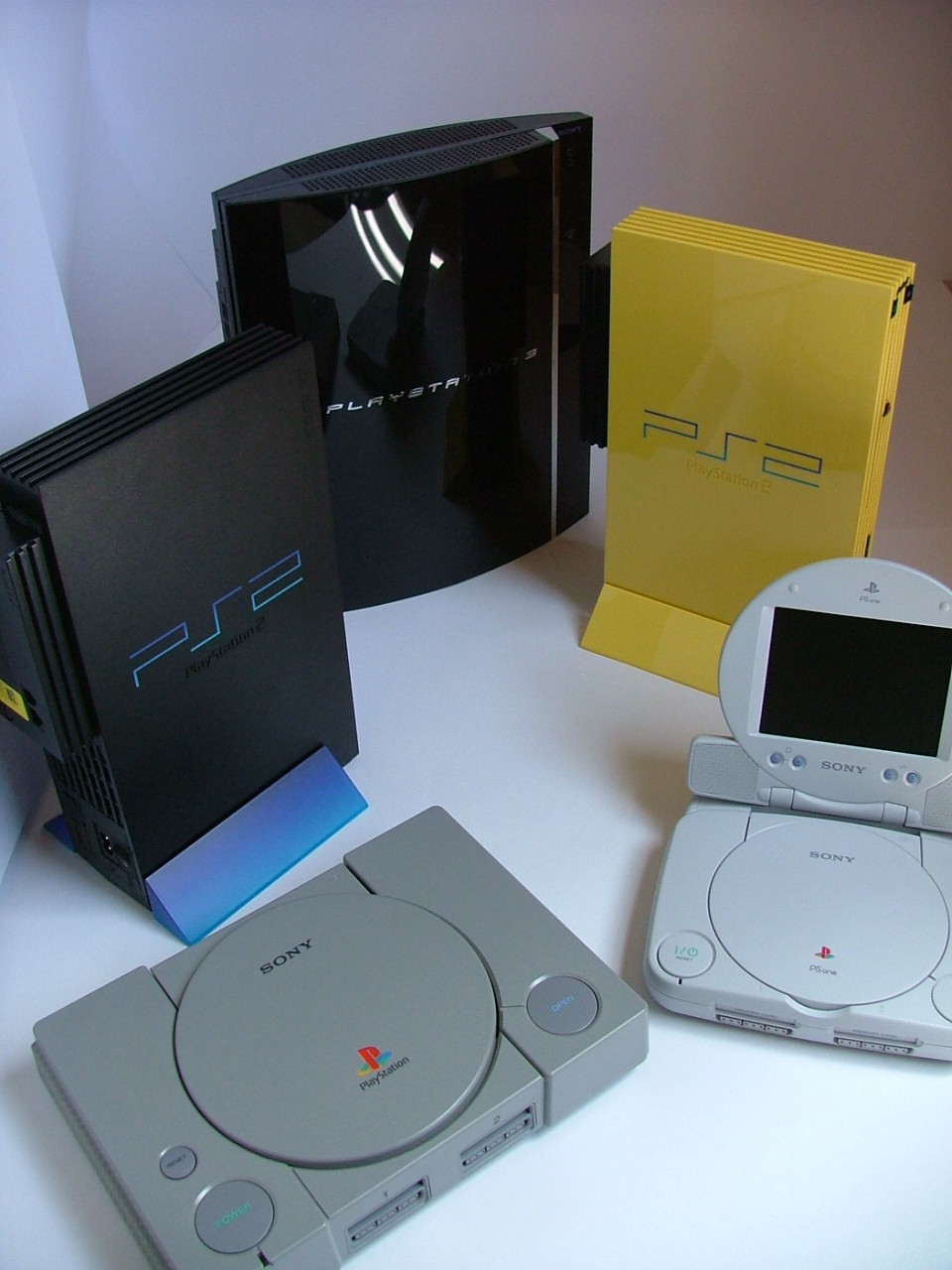 The whole family aside from PS2 slimline.